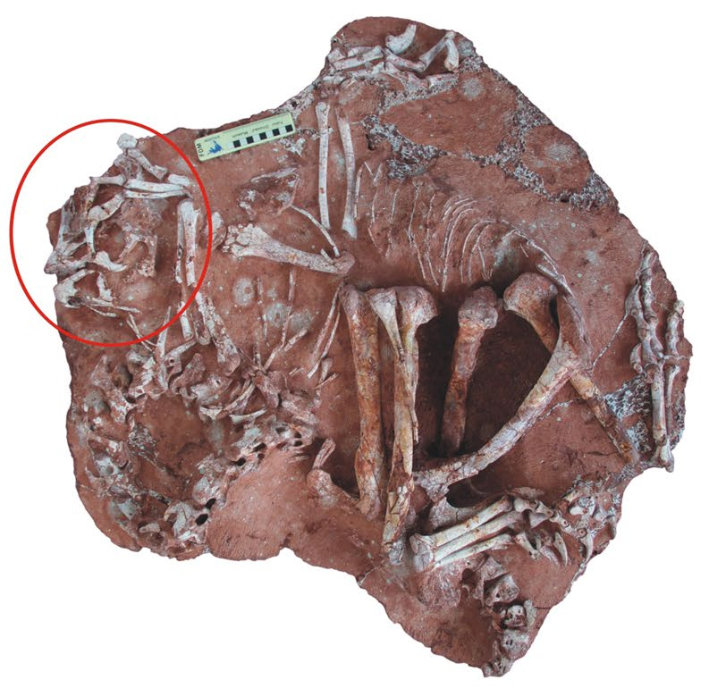 The holotype of Corythoraptor jacobsi gen. et sp. nov. (JPM-2015-001). (a) Photograph. (b) Outline drawings. (c) Close up of the skull and lower jaw, showing the pneumatic cassowary-like crest (Only skull and lower jaw elements are labeled). (d) Skeletal reconstruction (missing parts are in grey). Abbreviations: aof, antorbital fenestra; cav. caudal vertebrae; cr. cervical ribs; cv. cervical vertebrae; dv. dorsal vertebrae; fe, femur; fi. fibula; h, humerus; il, ilium; is, ischium; l, lacrimal; lj, lower jaw; ltf, lower temporal fenestra; m, maxilla; n, nasal; nar, narial opening; o, orbit; oc, occipital condyle; p, parietal; pm, premaxilla; po, postorbital; ps, pes; psc, pneumatic skull crest; pu. pubis; q, quadrate; ra, radius; sk, skull; sq, squamosal; stf, super temporal fenestra; ti, tibia; ul, ulna. Scale bar = 8 cm in (c) and 100 cm in (d).